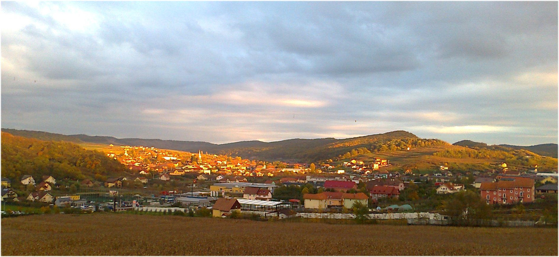 View of Corunca (Mures county, Romania)